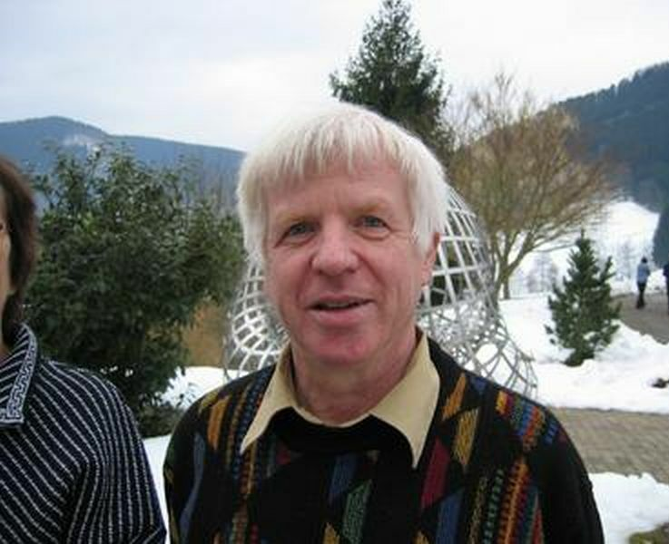 Claus Michael Ringel, Oberwolfach 2005